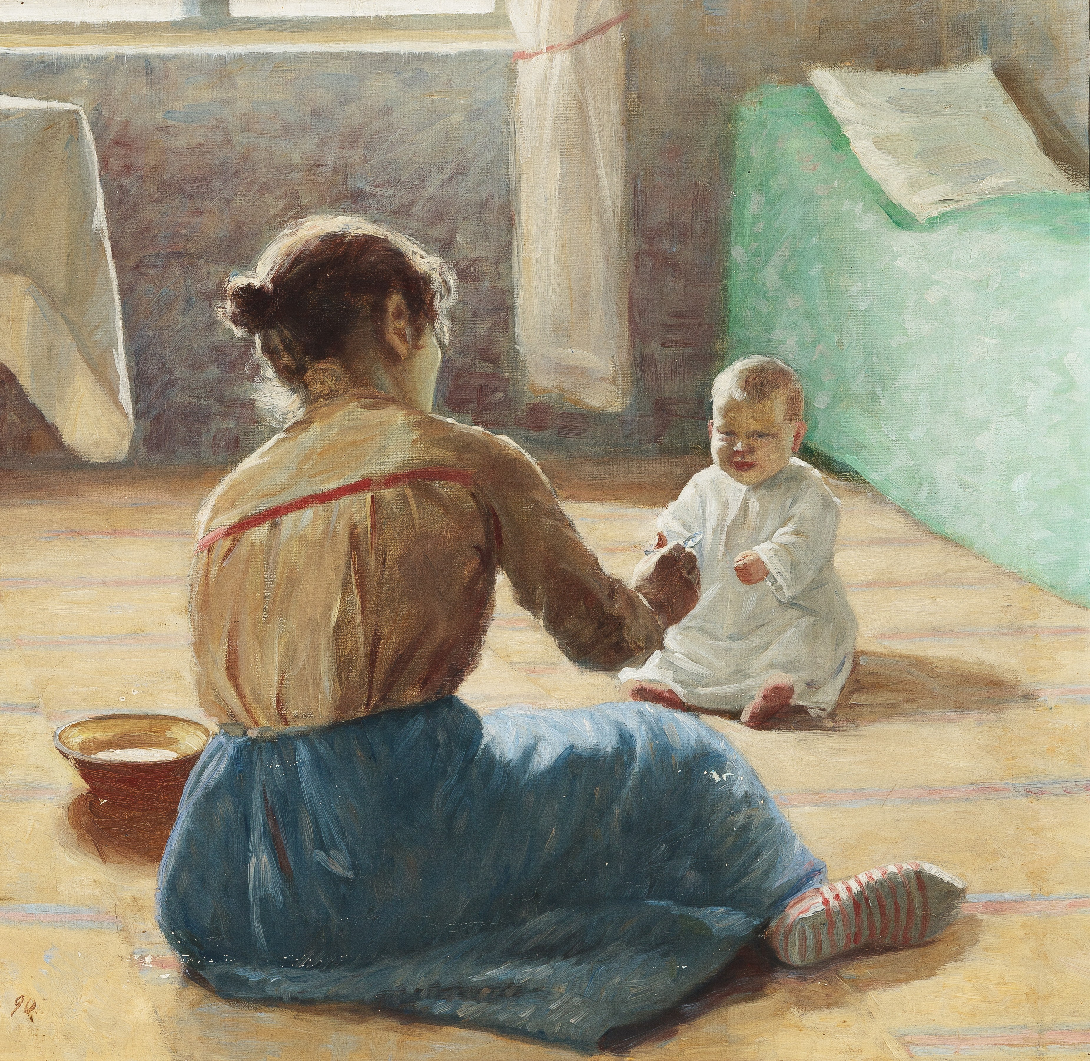 "Mother and Child", oil painting by Hanna Rönnberg painted in Önningeby in 1890.